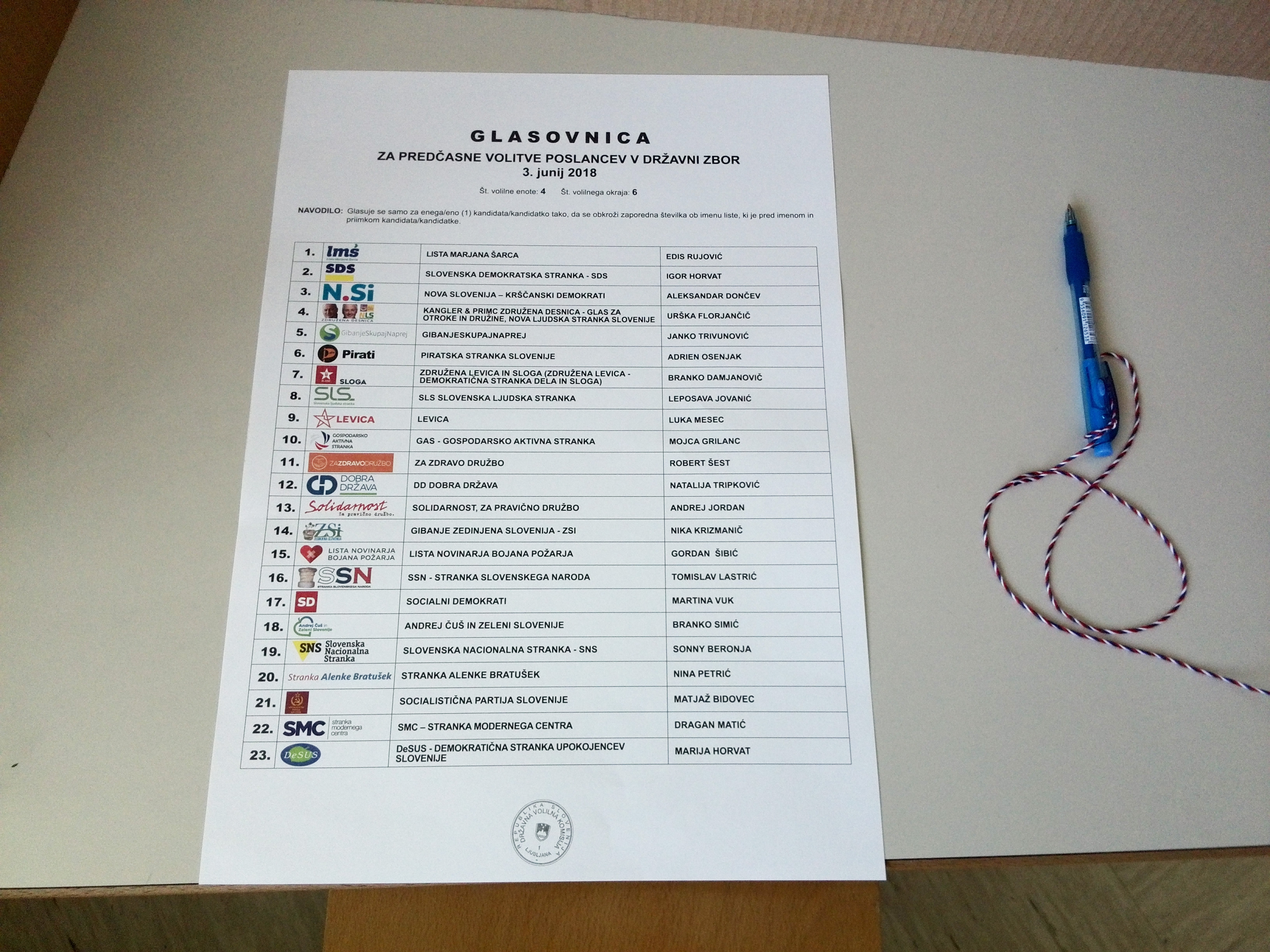 Ballot paper of Slovenian parliamentary election, 2018